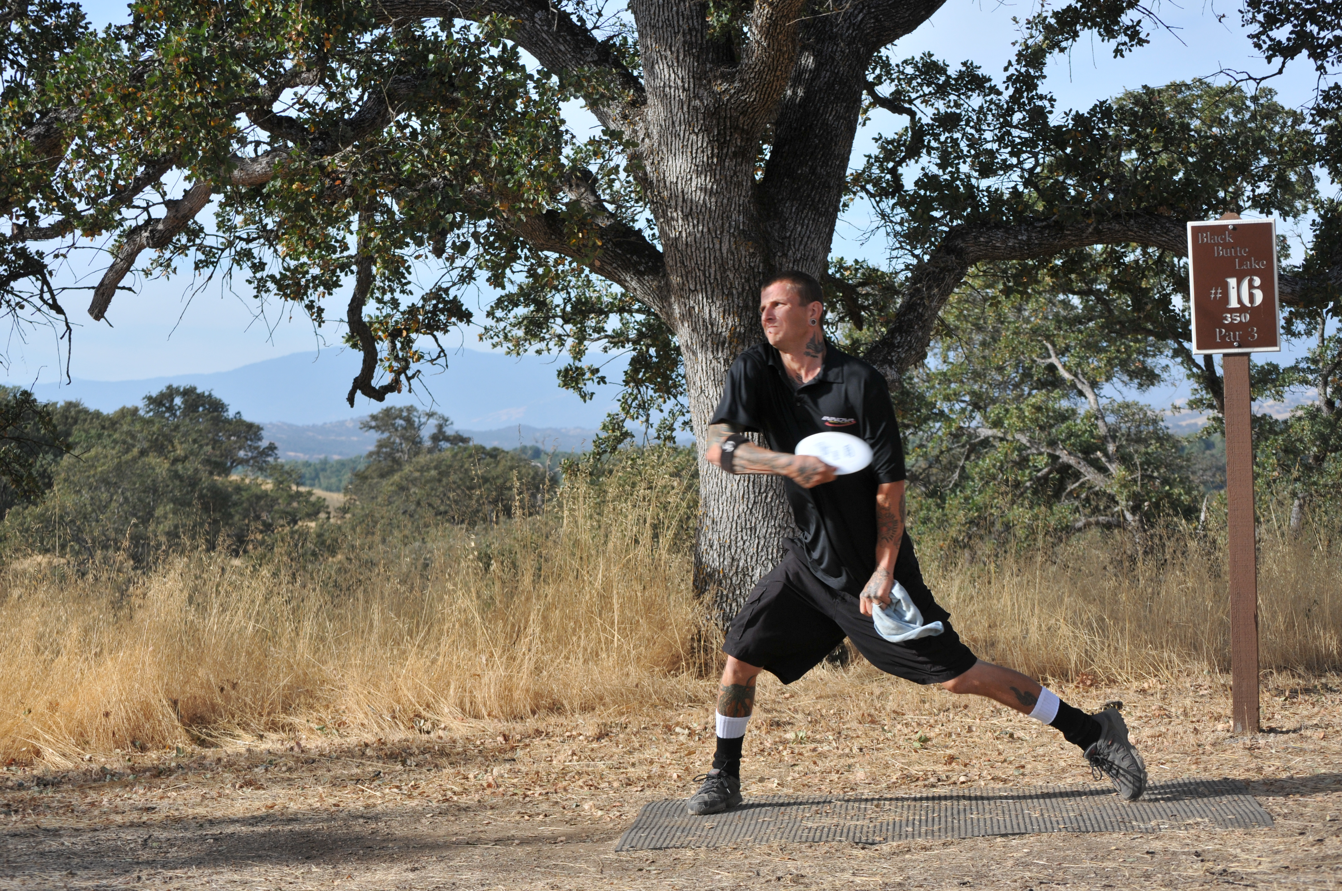 BLACK BUTTE LAKE, Calif. (Oct. 18, 2010) -- A disc golfer tees off during the Professional Disc Golf Association's Norcal Series Championships here Oct. 16. The U.S. Army Corps of Engineers Sacramento District’s Black Butte hosted the tournament Oct. 15-17 at its new disc golf course, built on park lands by The Orland Aces disc golf club under a partnership with the Corps. More than 150 disc golfers from as far as Texas competed in the tournament.